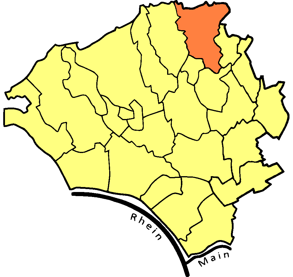 Map of Wiesbaden showing the location of Naurod